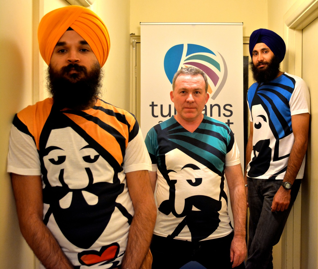 This image was taken to help launch Turbans and Trust, an intitiave of Harjit Singh and the team of Daniel Connell, Jasdeep Singh, Guramrit Kaur and Gurkiran Kaur in 2013. Turbans and Trust has become a significant voluntary NFP, Australian movement foregrounding the Sikh turban. Its aim is to start conversations about what it means to be different and what it means to not be afraid of difference.